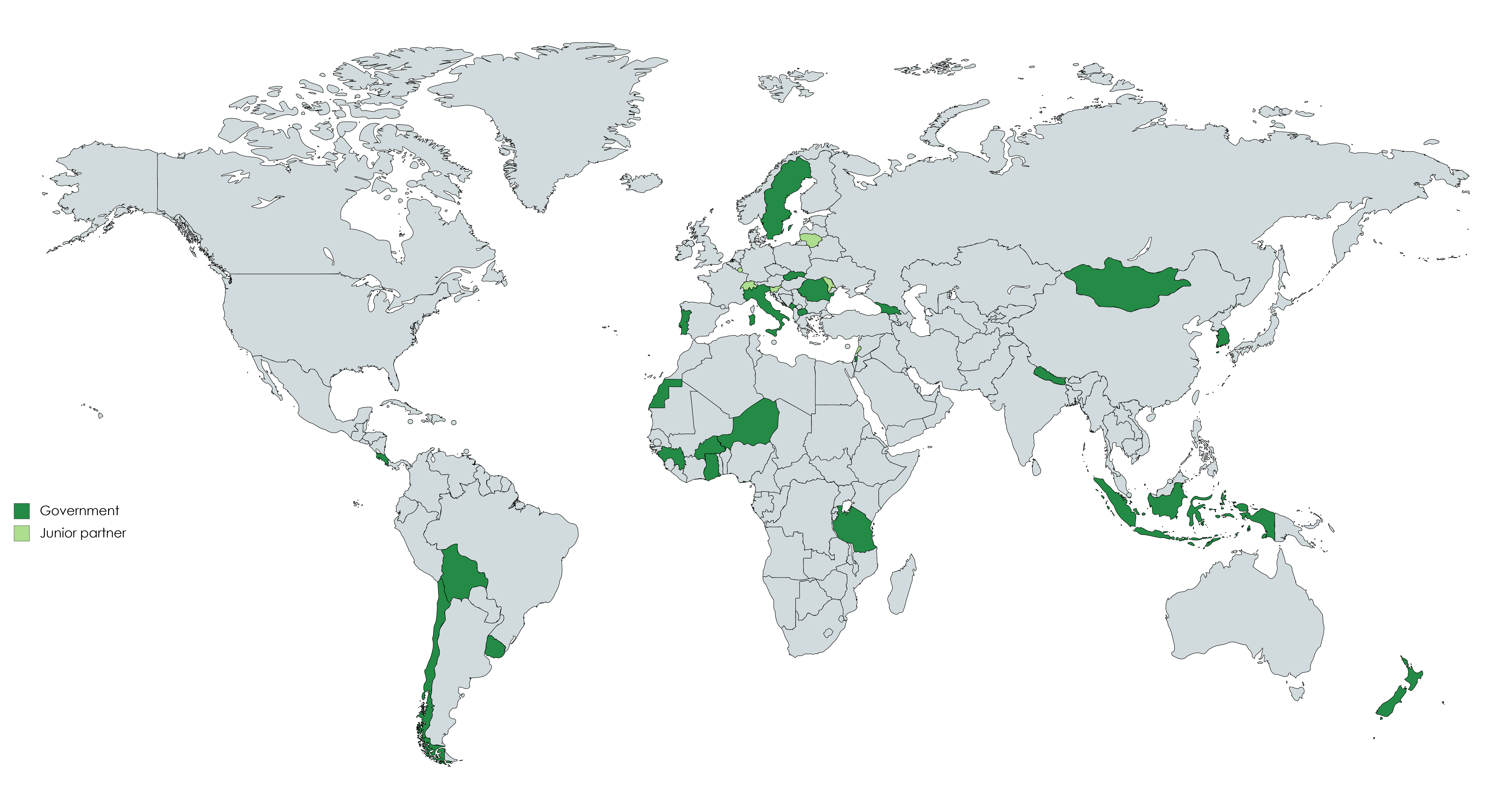 Progressive Alliance